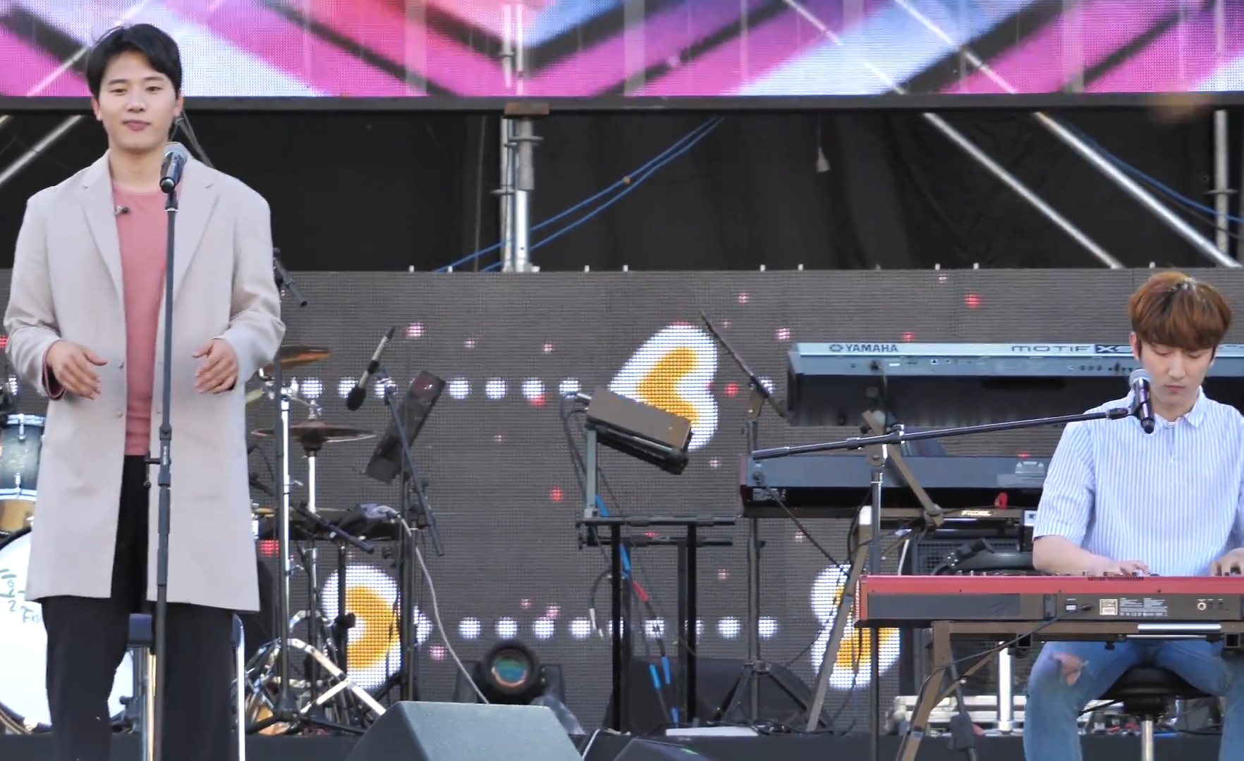 MeloMance performing "I Like Her" at Holgabun Festival on May 19, 2018